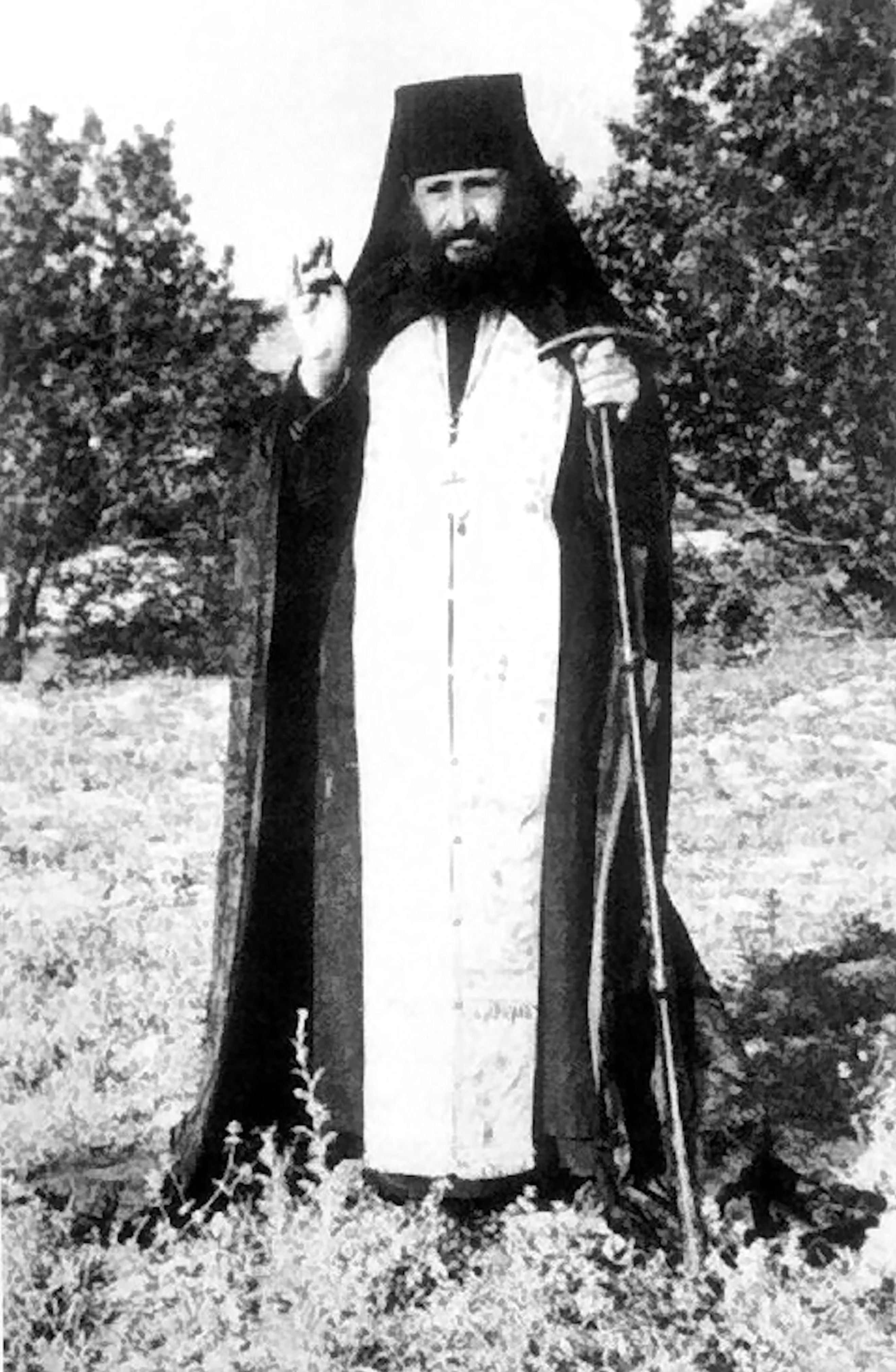 Venerable Elder and New Confessor Saint George (Karslidis) of Drama (1901 – November 4, 1959), giving a priestly blessing. His Feast Day is celebrated on November 4.